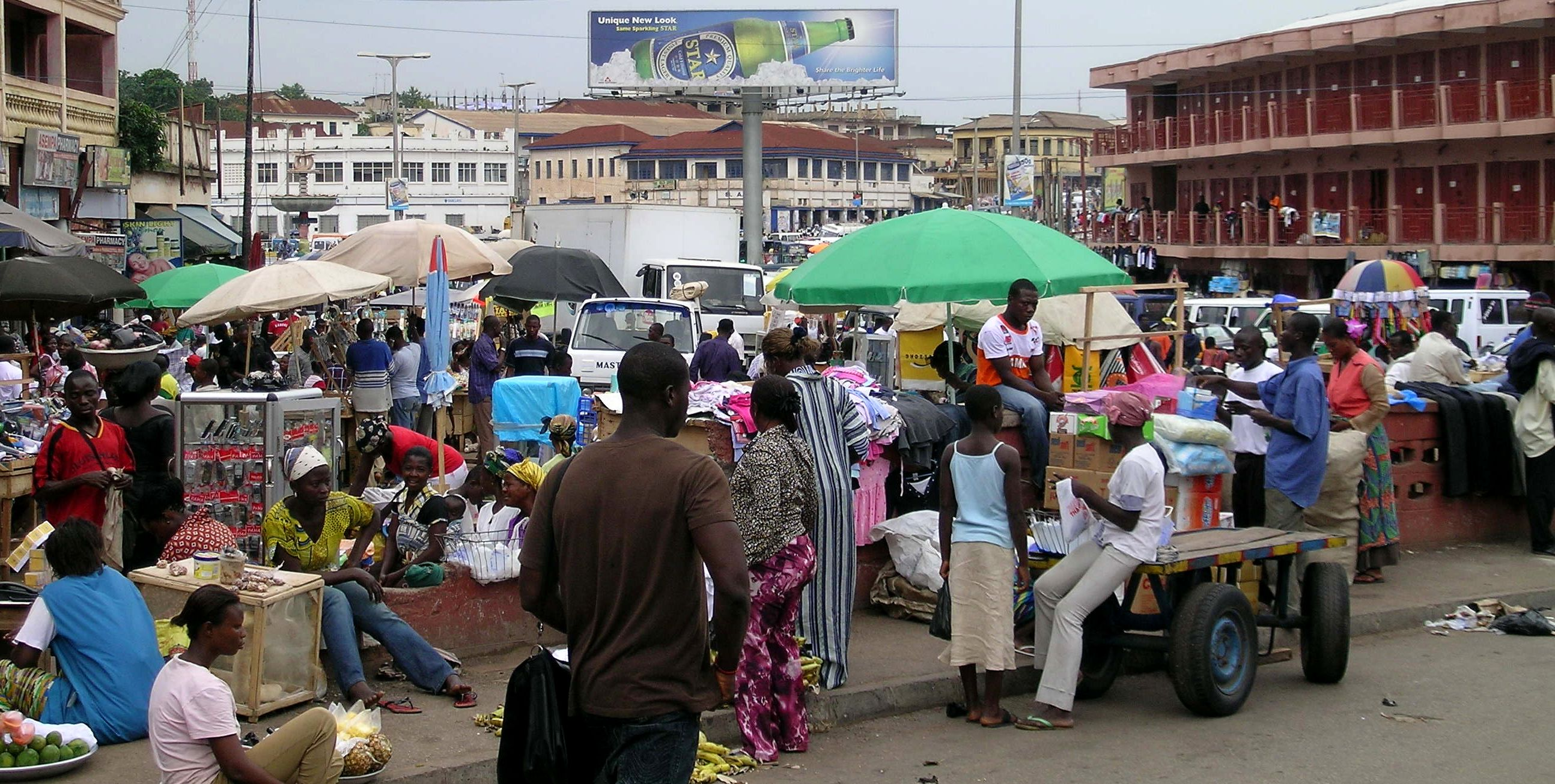 Street in Kumasi, Ghana.